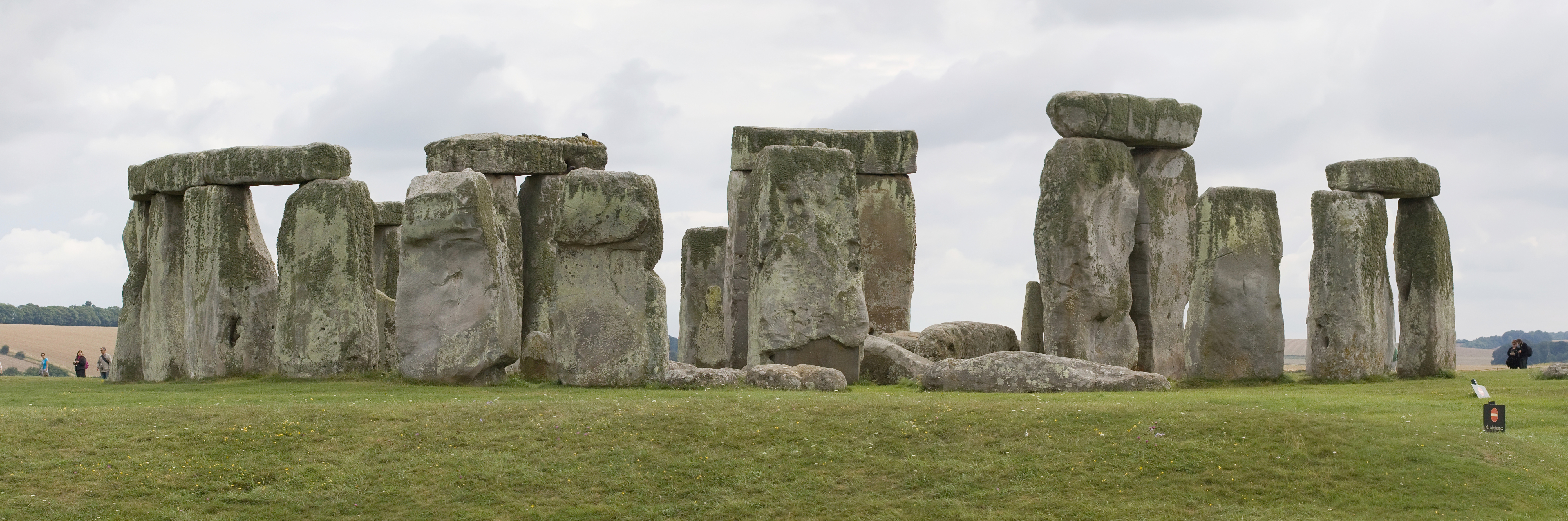 Stonehenge, Wiltshire, UK